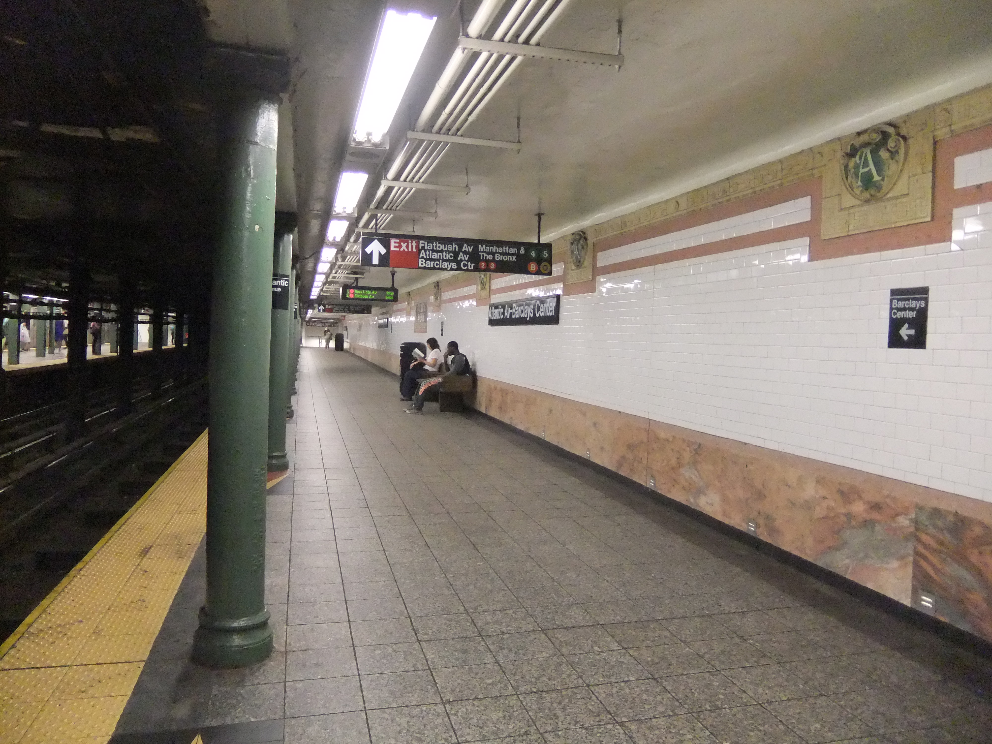 New Lots/Flatbush Ave platform at Atlantic Avenue - Barclays Ctr.